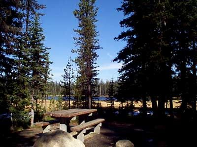 Grande Ronde Lake Campground in Wallowa-Whitman National Forest in northeastern Oregon